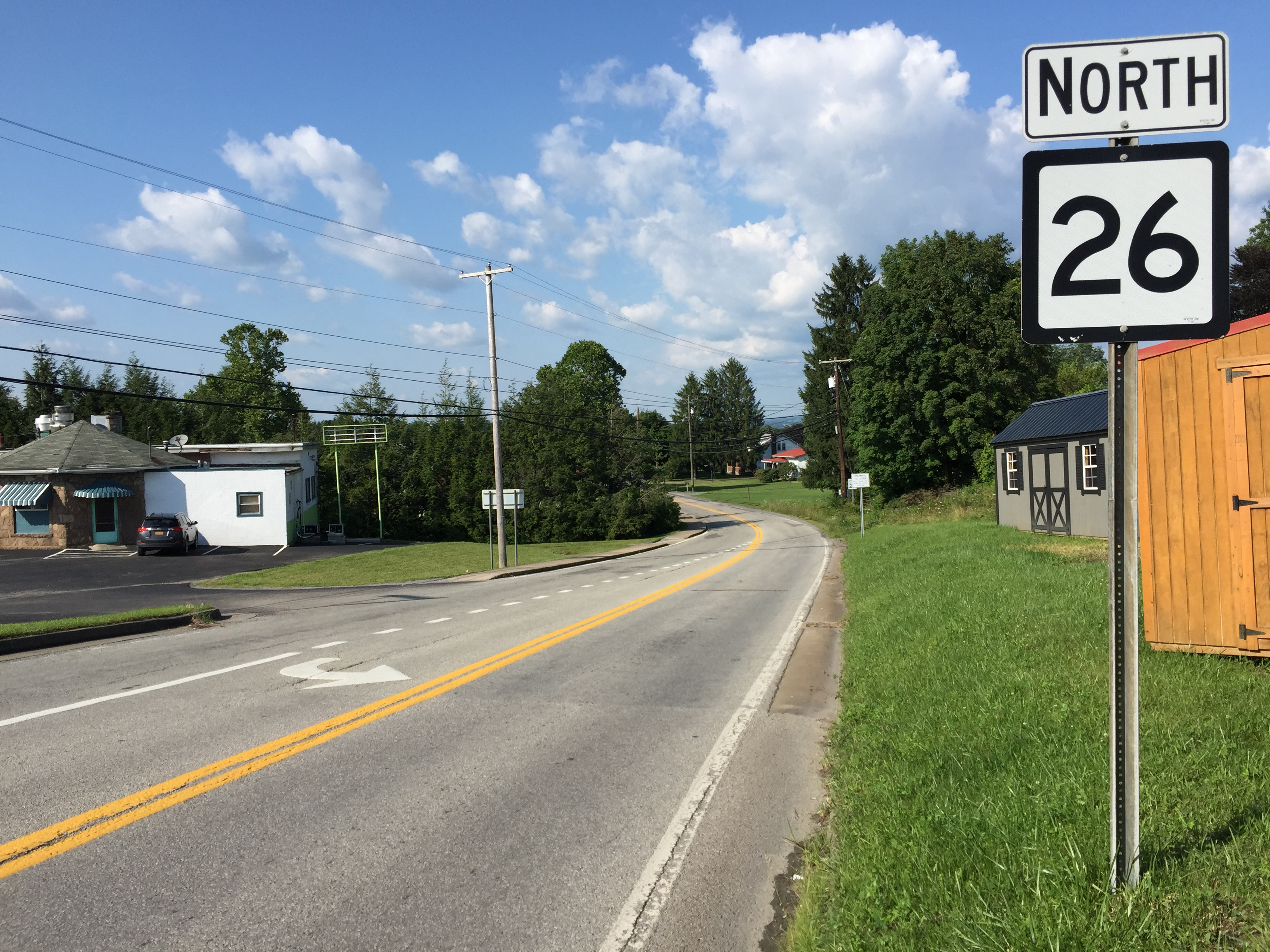 View north along West Virginia State Route 26 (Albright Road) at West Virginia State Route 7 (Main Street) in Kingwood, Preston County, West Virginia